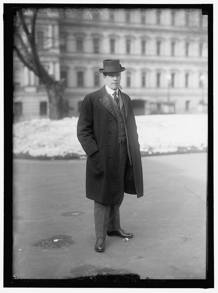 John A. Key , congressman from Ohio, seen in Washington, D.C., 1914.